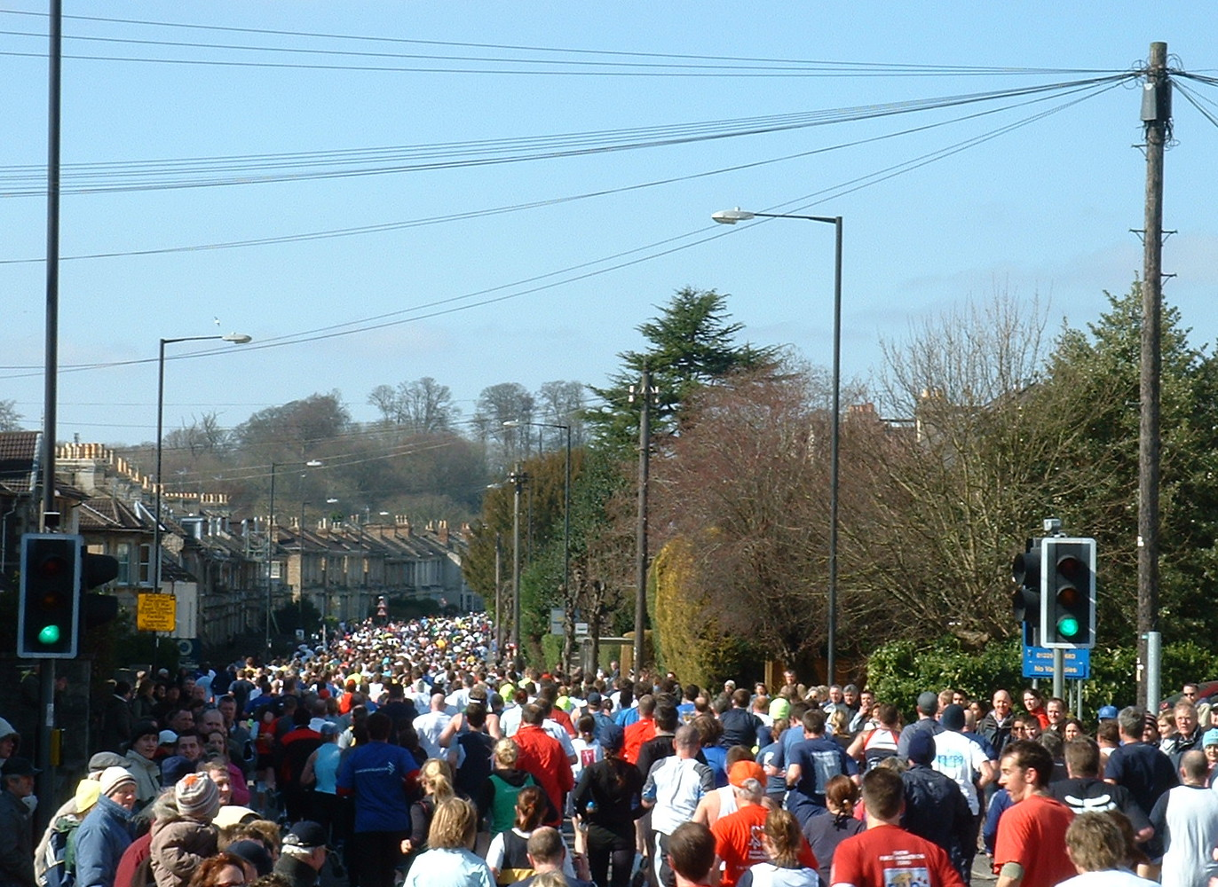 Bath Half Marathon, 2006. Main group of runners on Newbridge Road, first lap.